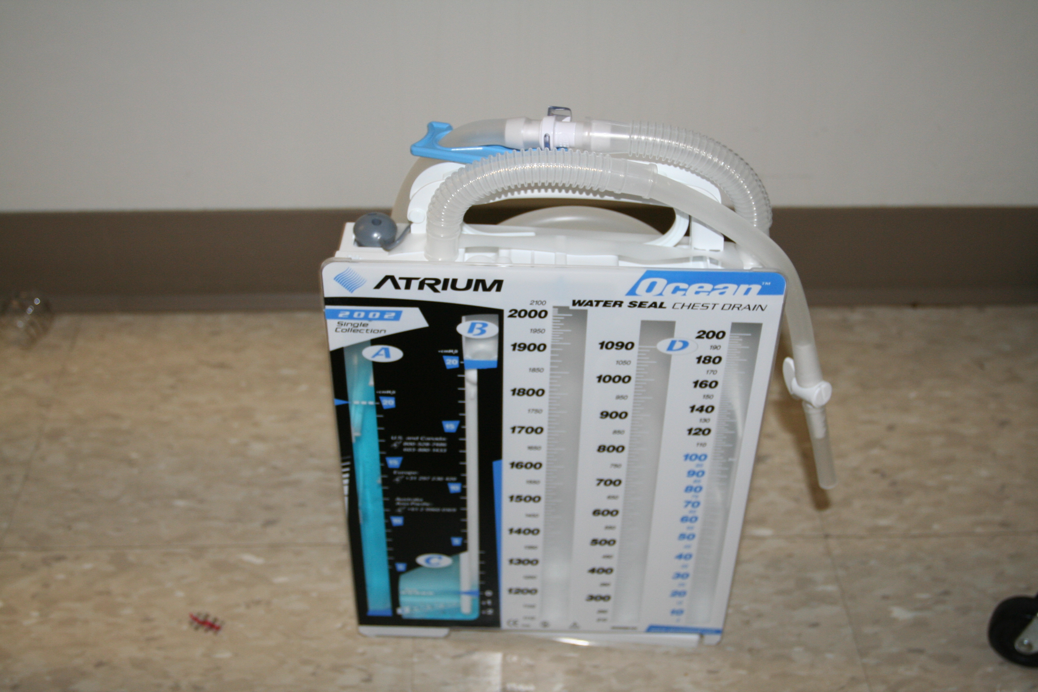 chest drain - empty